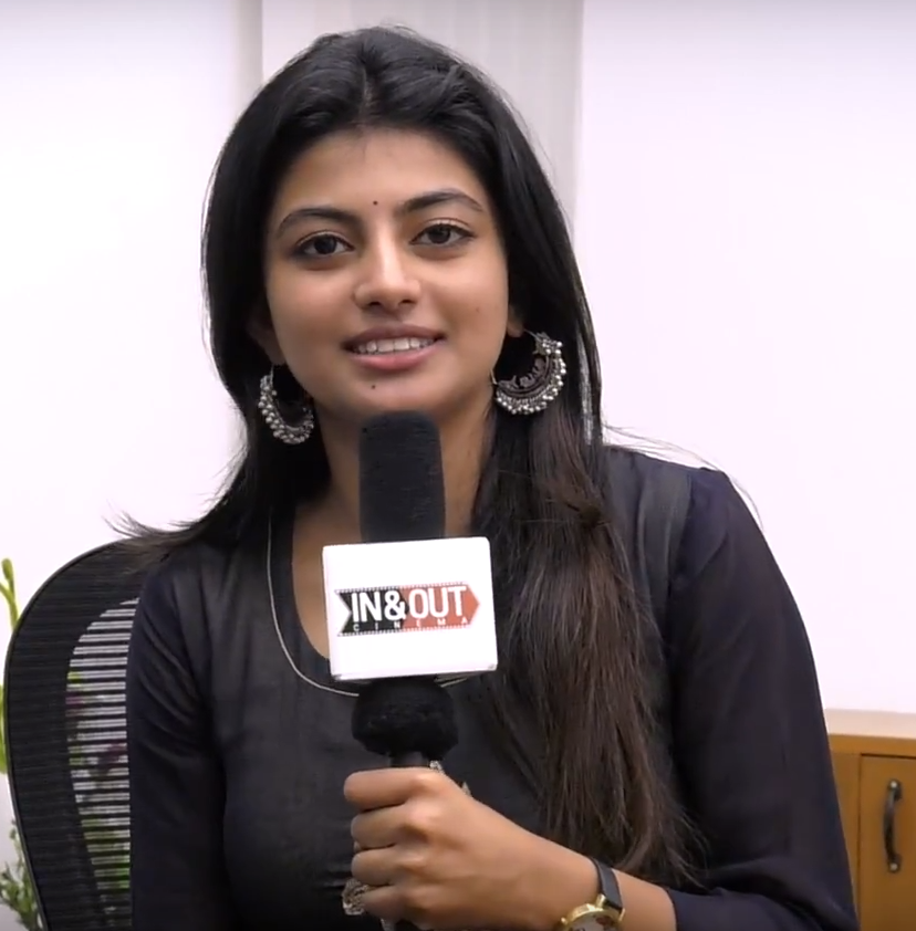 Anandhi with inandout cinema